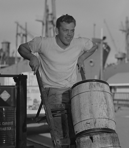 Title: Baseball players in war production. Pitching in to stop the Axis short, shortstop Vernie Stephens, former Saint Louis Browns star, has been a warehouseman for California Ship Building Corporation since early last fall